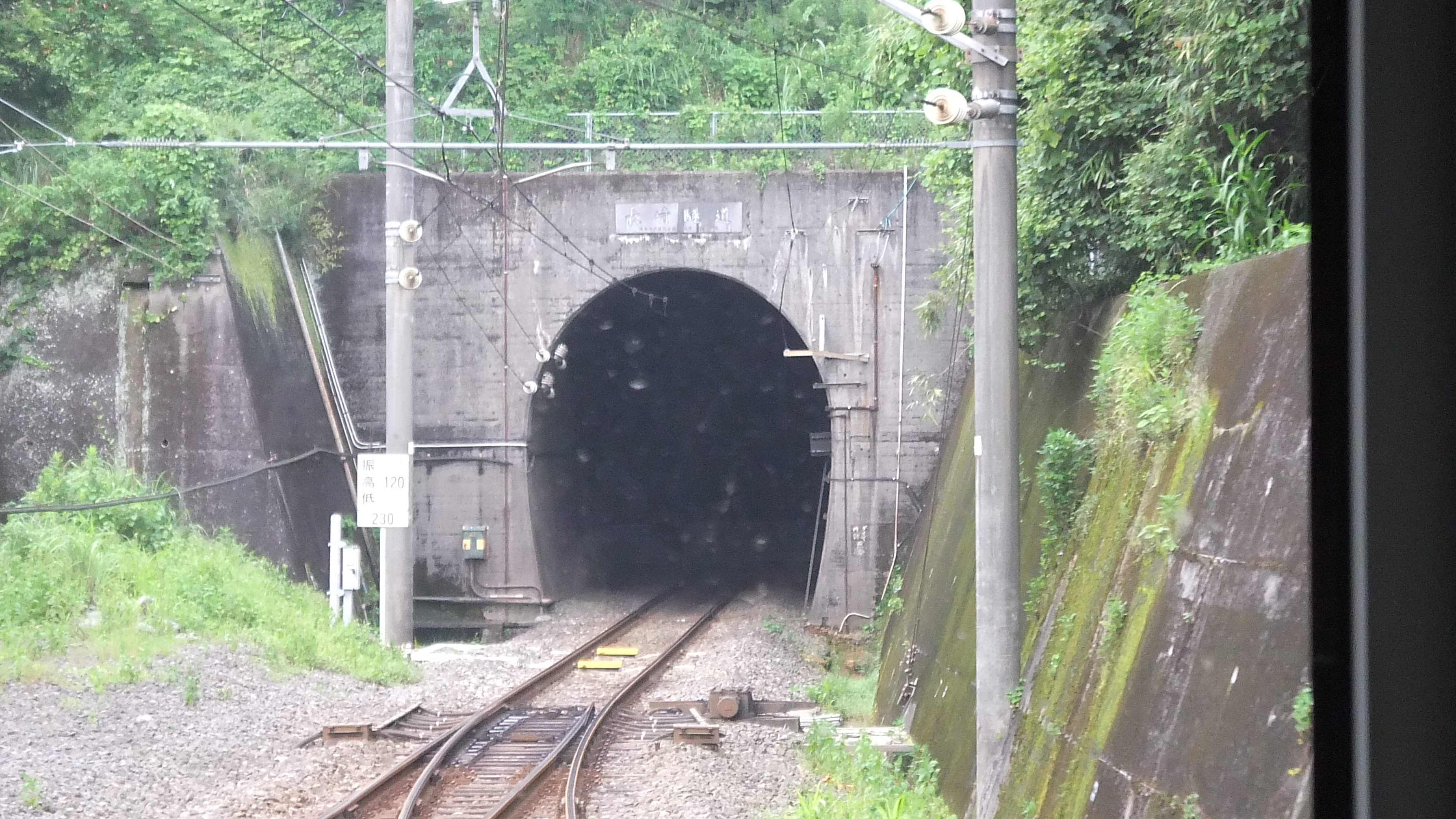 Nagasaki tunnel from Utsitsugawa Station（Big Exif）.